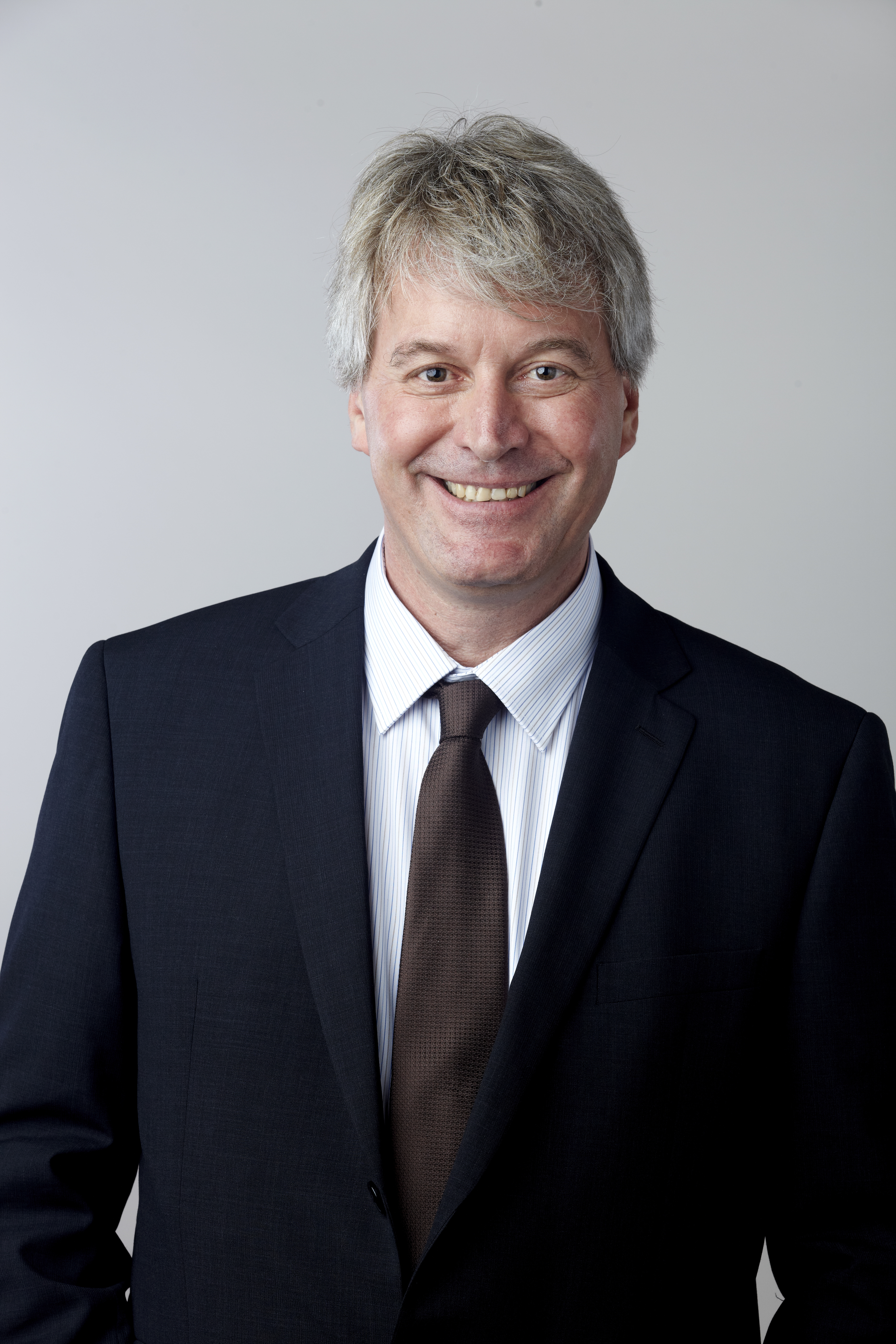 Professor Timothy Eglinton FRS, Royal Society Fellow elected 2014 Attribution: The Royal Society